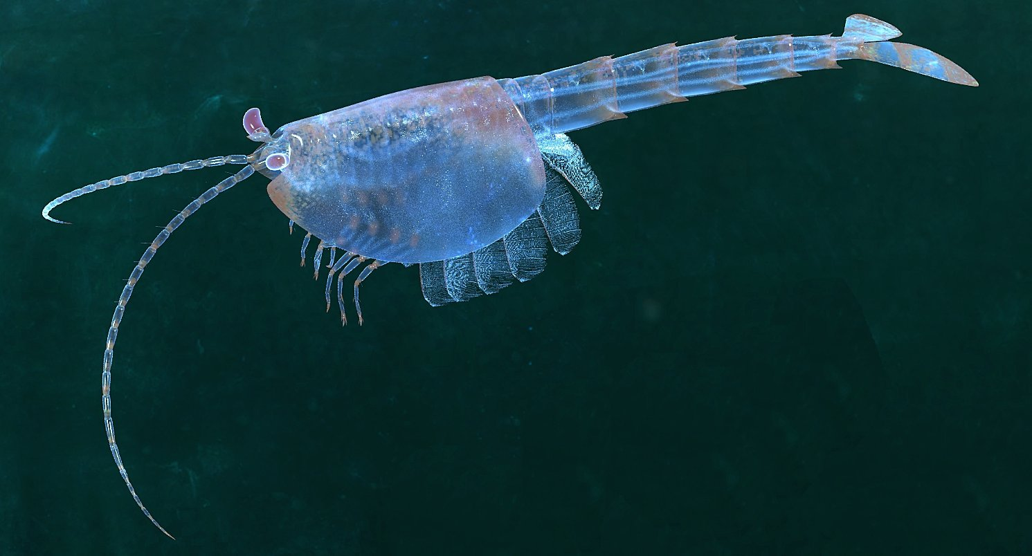 Cropped image of taxon in file name